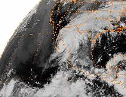 From GOES-8 satellite, Hurricane Ismael making landfall at 0245 UTC.